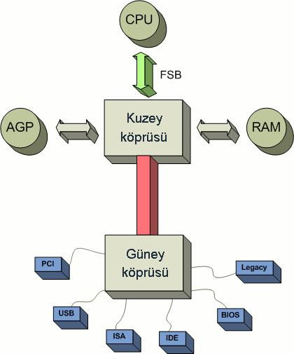 Scheme of a chipset